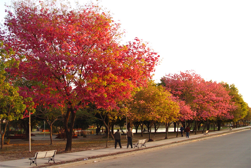 Lapachos en flor en el Paraíso de los Niños